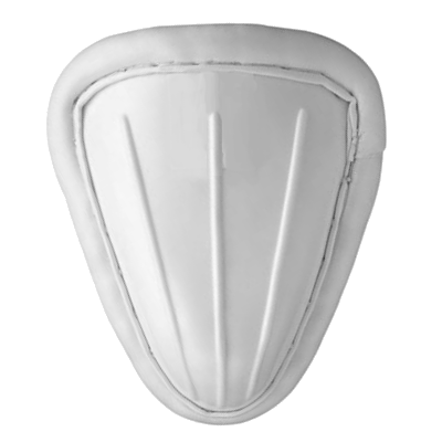 This is a picture of a "box". A box is a piece of protective clothing as worn by batsmen in the game of Cricket. It it used to protect the batsman's genitals. Edited in GIMP and PSP by Simon Biber.